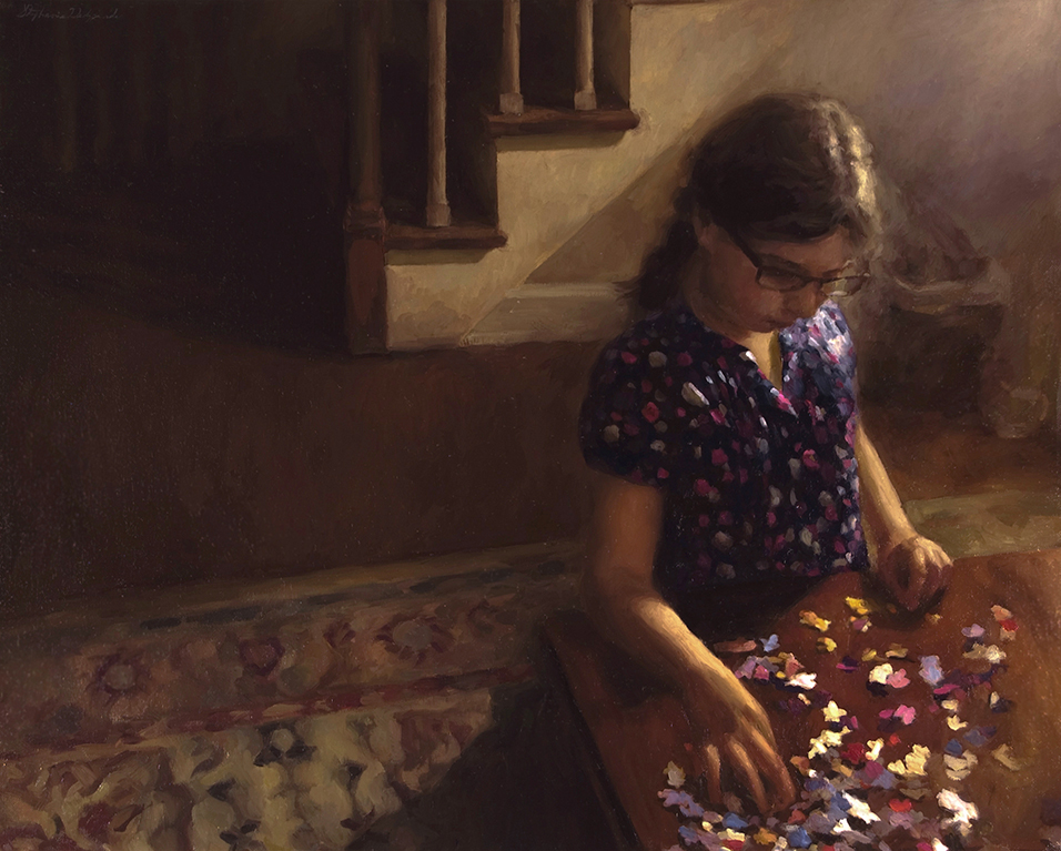 Assembling The Pieces by Stephanie Deshpande